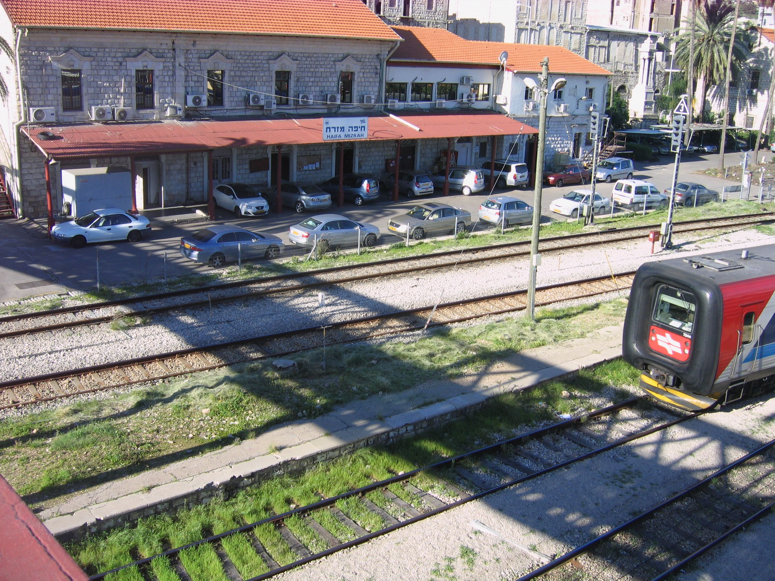 Rly. Station Haifa East(Mizrah)